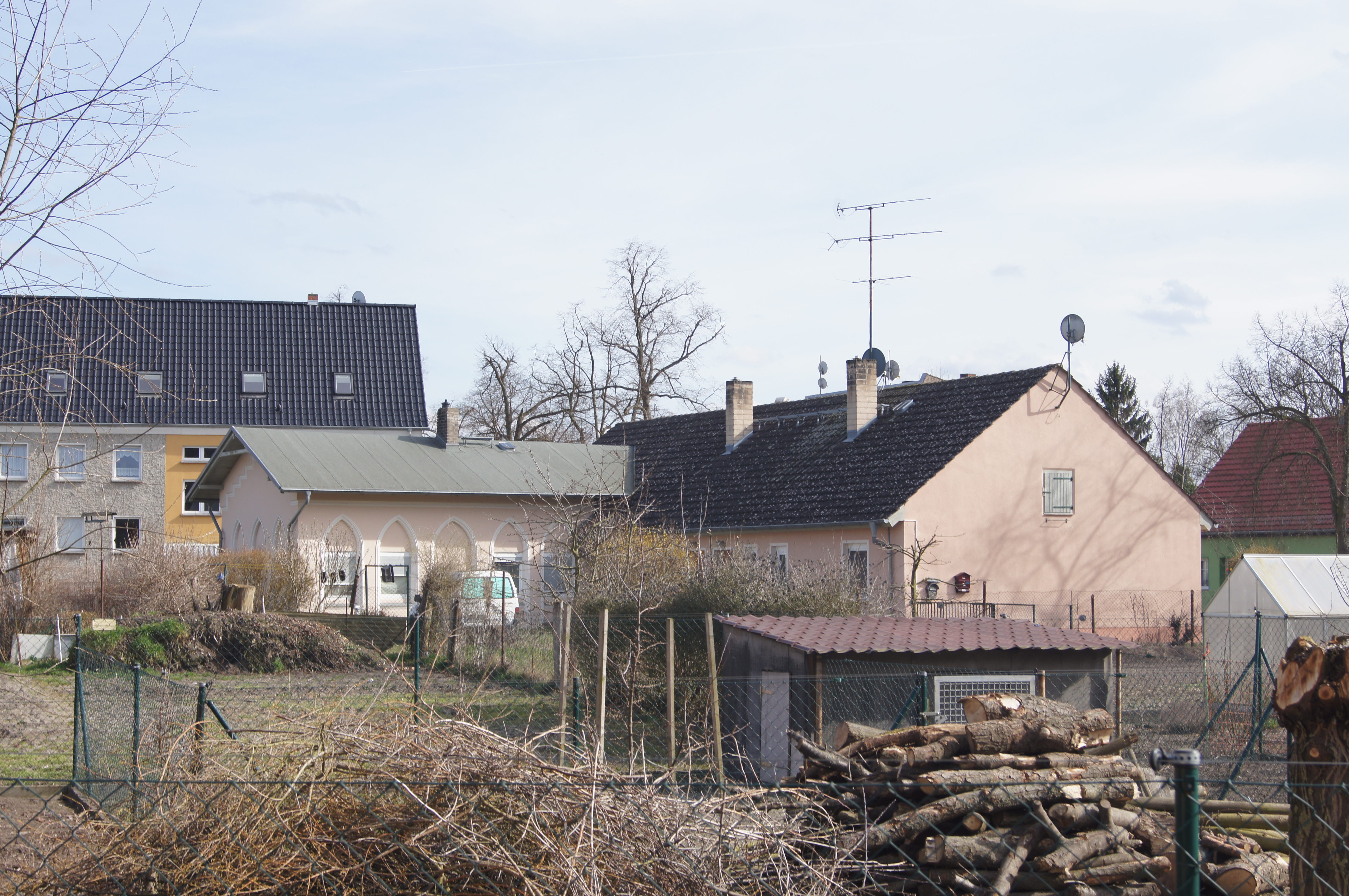 Synagogue with residential building Gross Neuendorf, Letschin, Brandenburg, Germany